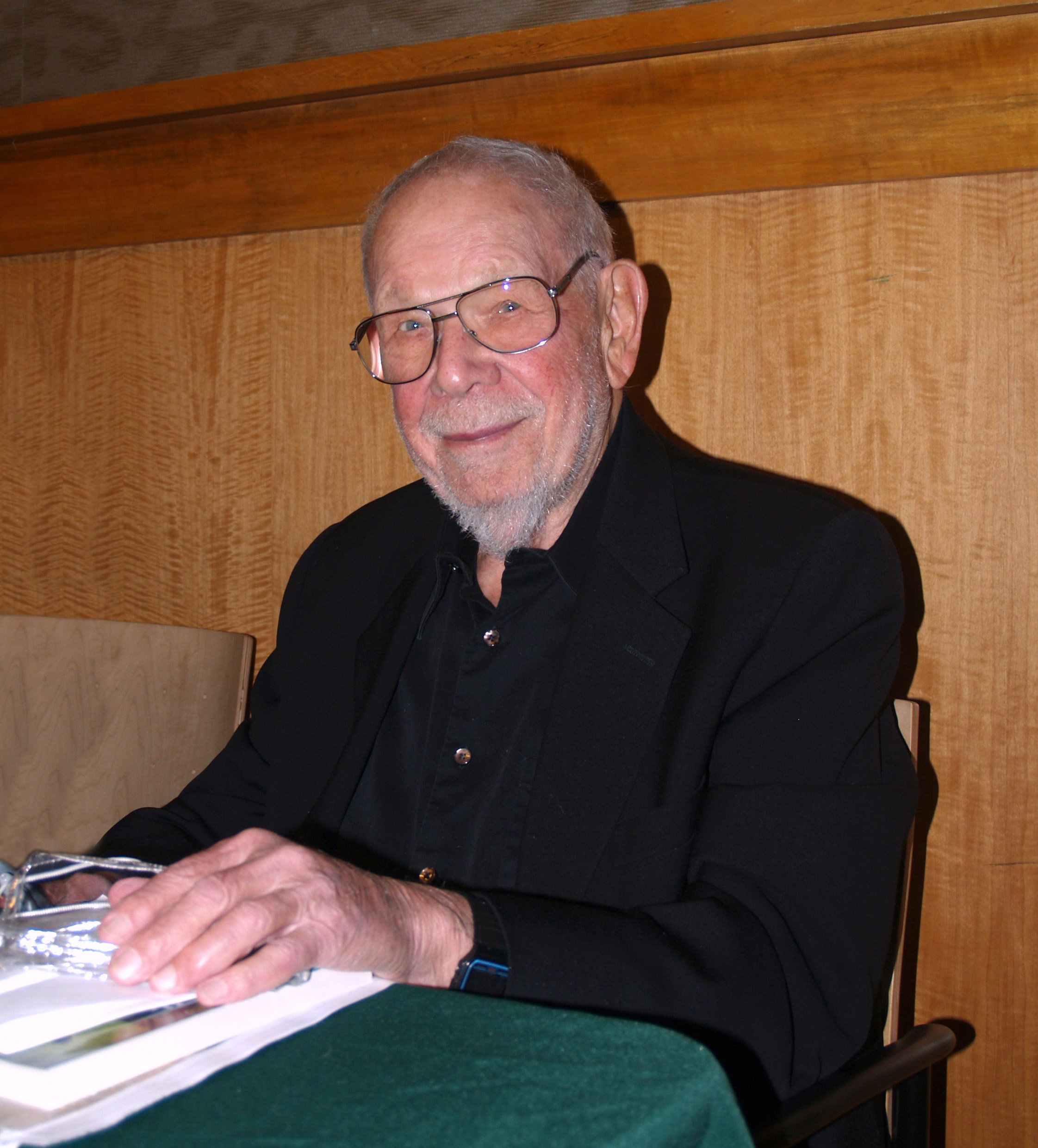 Cartoonist Al Jaffee at a November 13, 2013 book signing for Inside Mad, a collection of material from Mad magazine, at the Barnes & Noble bookstore on East 86th Street in Manhattan. The book signing was preceded by a visual presentation and a Q&A with Jaffee and other Mad creators. This photo was created by Luigi Novi. It is not in the public domain, and use of this file outside of the licensing terms is a copyright violation.